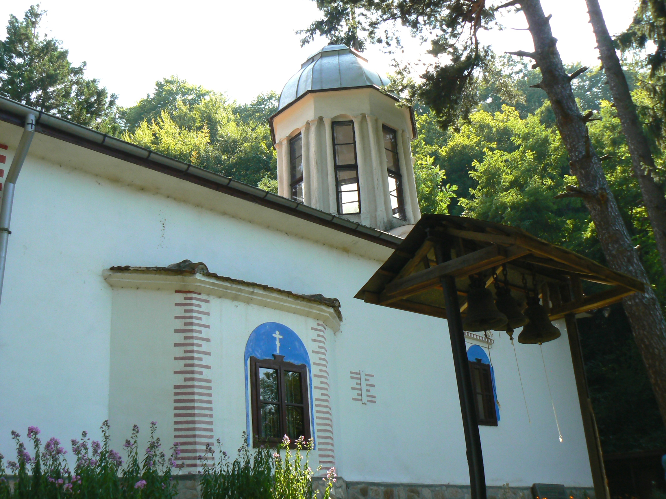 The church of Divotino Monastery, Bulgaria